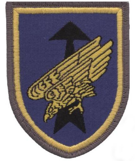 coat of arms of the Bundeswehr (Armed Forces of the Federal Republic of Germany). → Remarks on naming and categorization scheme